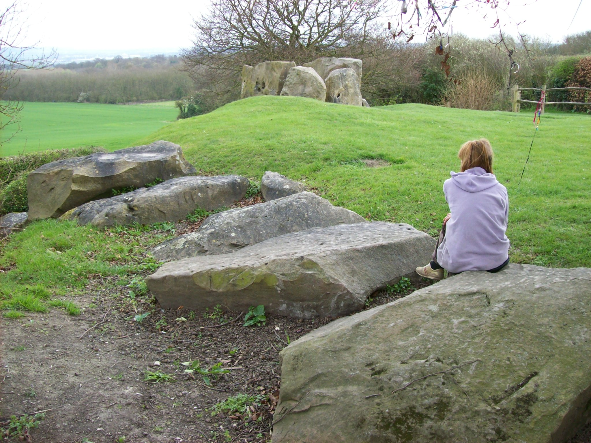 Coldrum Long Barrow, Kent